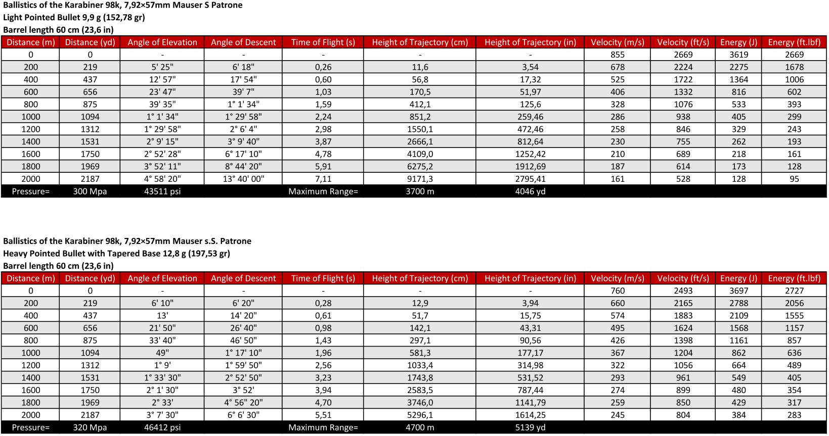 Ballistic tables for the 1903 pattern 7.92×57mm Mauser S Patrone and the further improved 1914 pattern 7.92×57mm Mauser s.S. Patrone fired from a Karabiner 98k with a 600 mm (23.6 in) barrel.